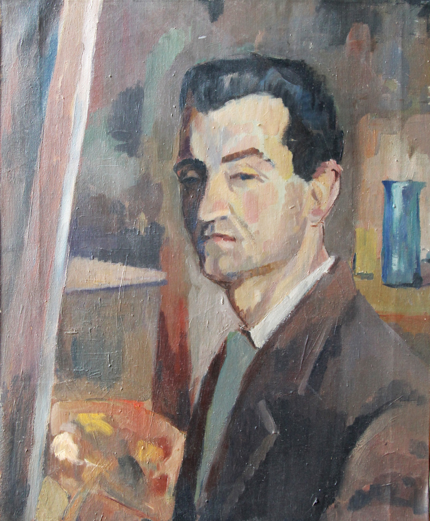 Self portrait, Oreste Carpi, 1956, oil on canvas